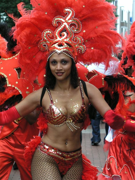 Dancer at the Zoetermeer Caribbean Carnival. Zoetermeer, South Holland, the Netherlands.